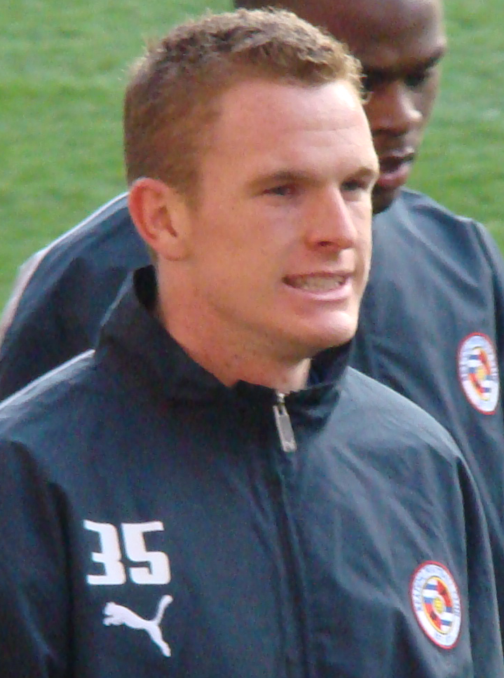 Alex Pearce warming up against Aston Villa